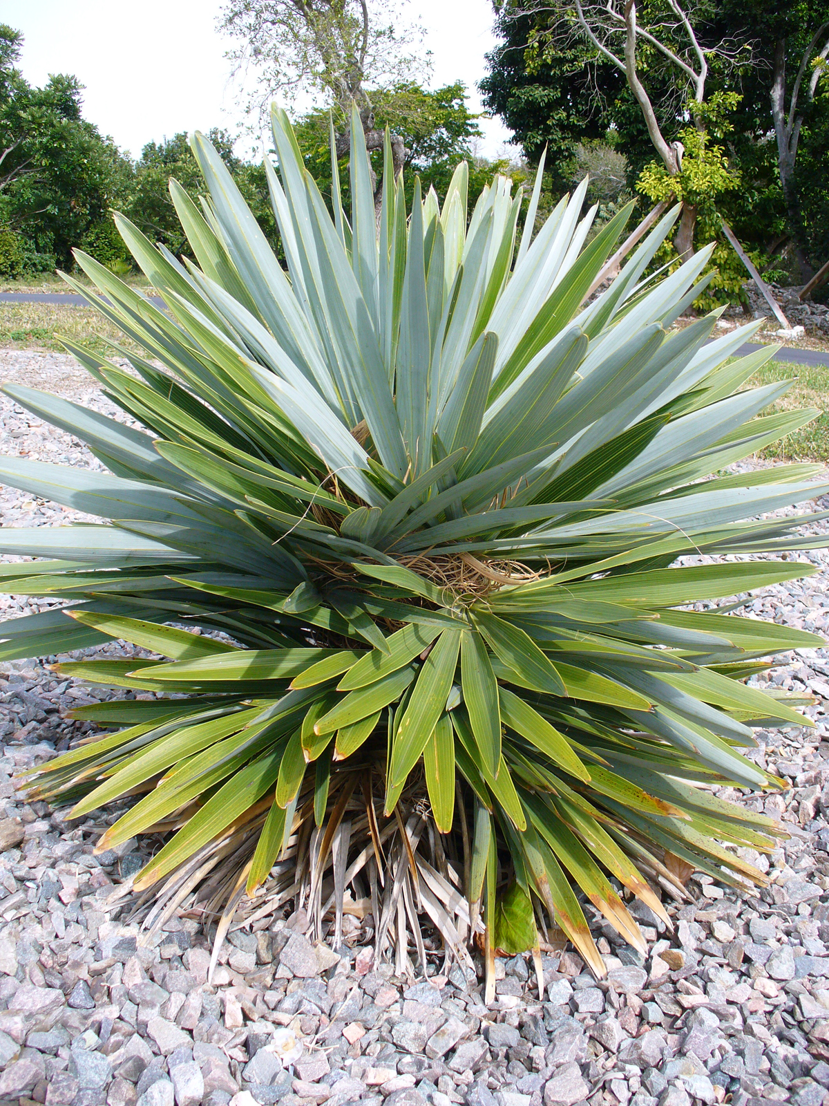 Hemithrinax ekmaniana, Montgomery Botanical Center, Miami, FL, USA